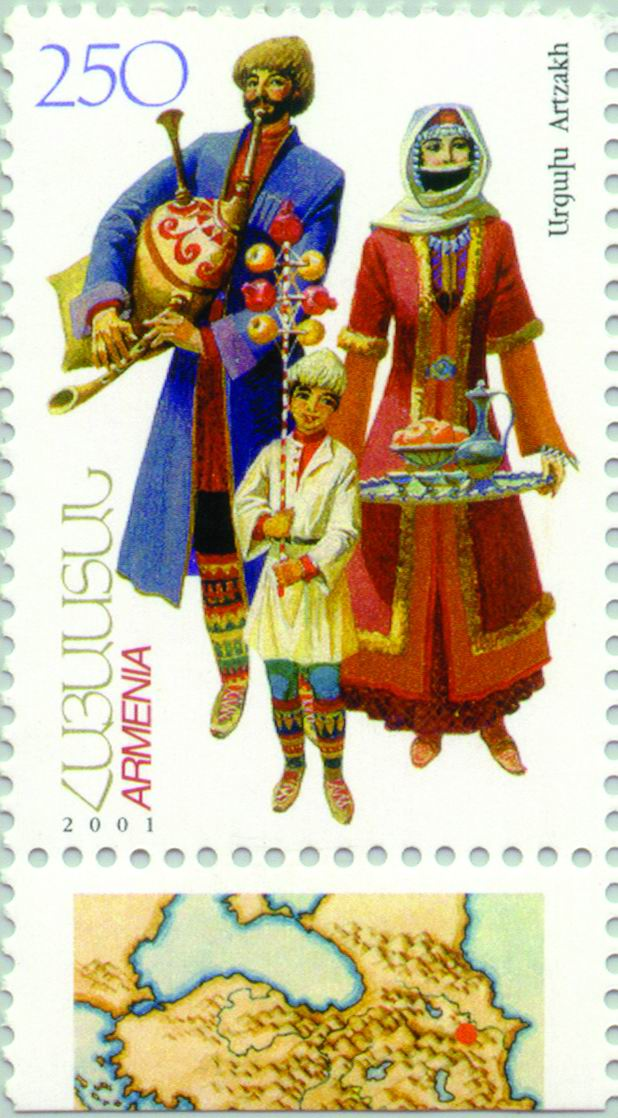 Stamp of Armenia